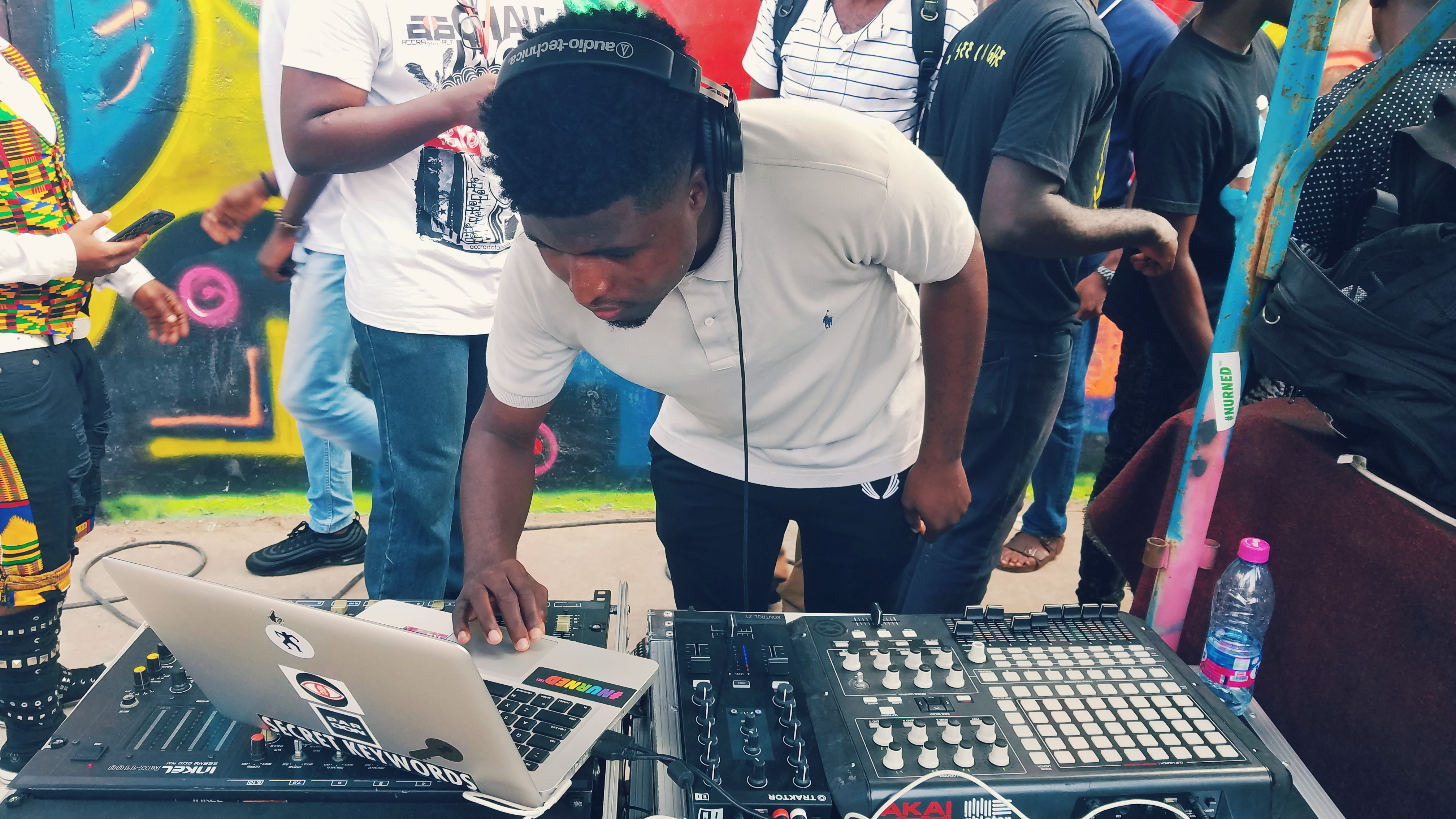 Performing at Asokpor Corner during Chalewote 2018.